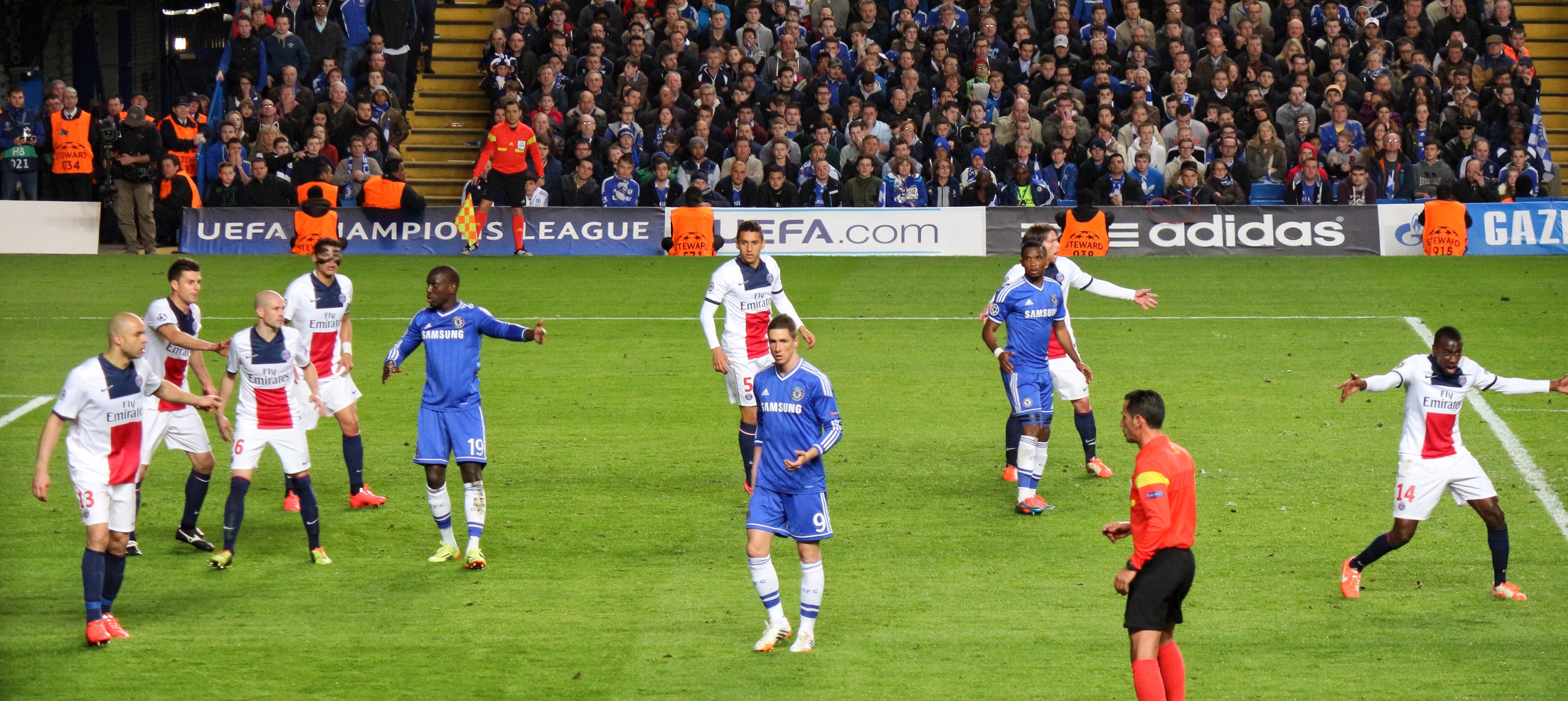 Chelsea 2 PSG 0